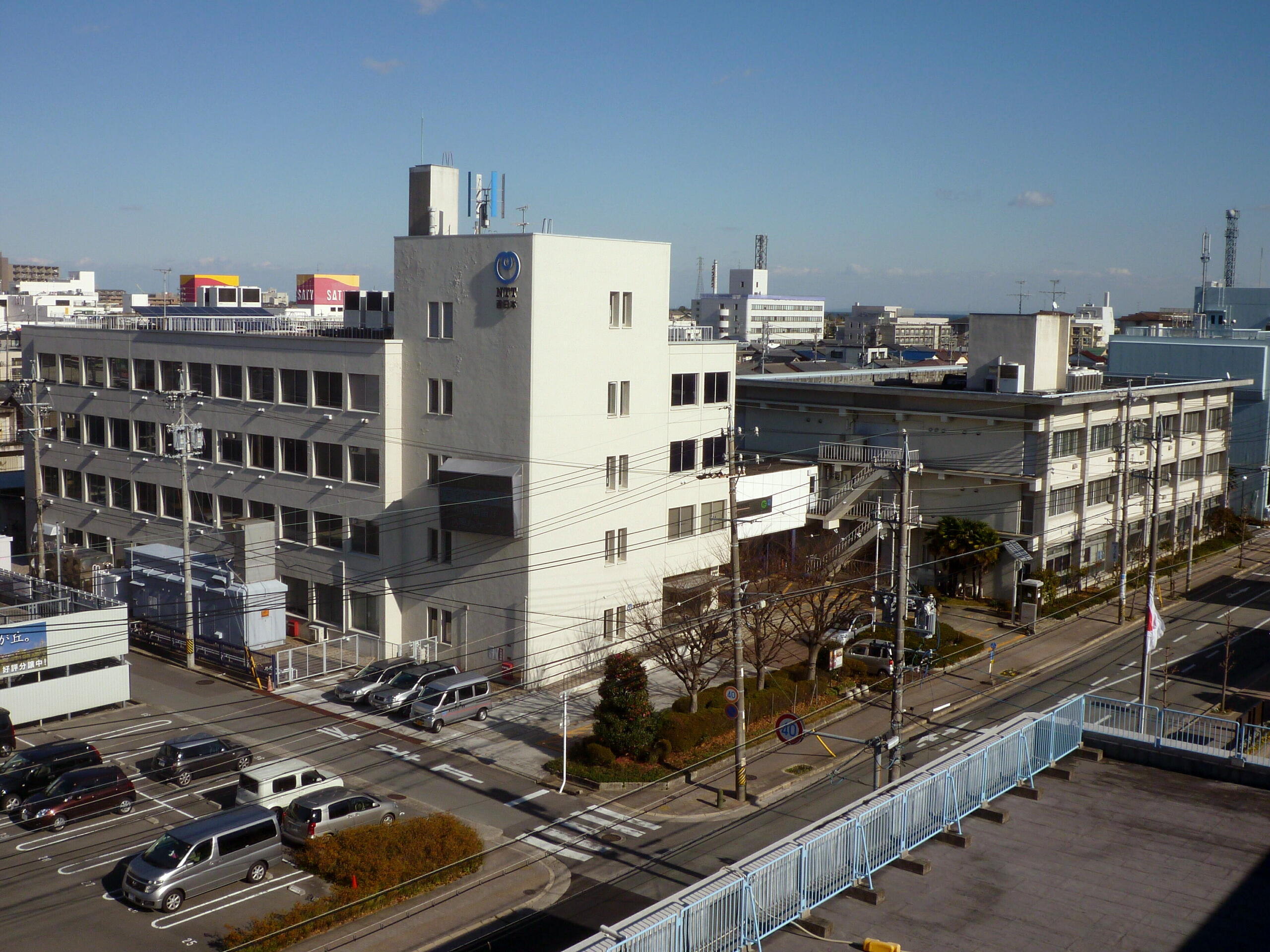 The "NTT Tsu-Sakurabashi Building" in Tsu City,Mie Prefecture,Japan.